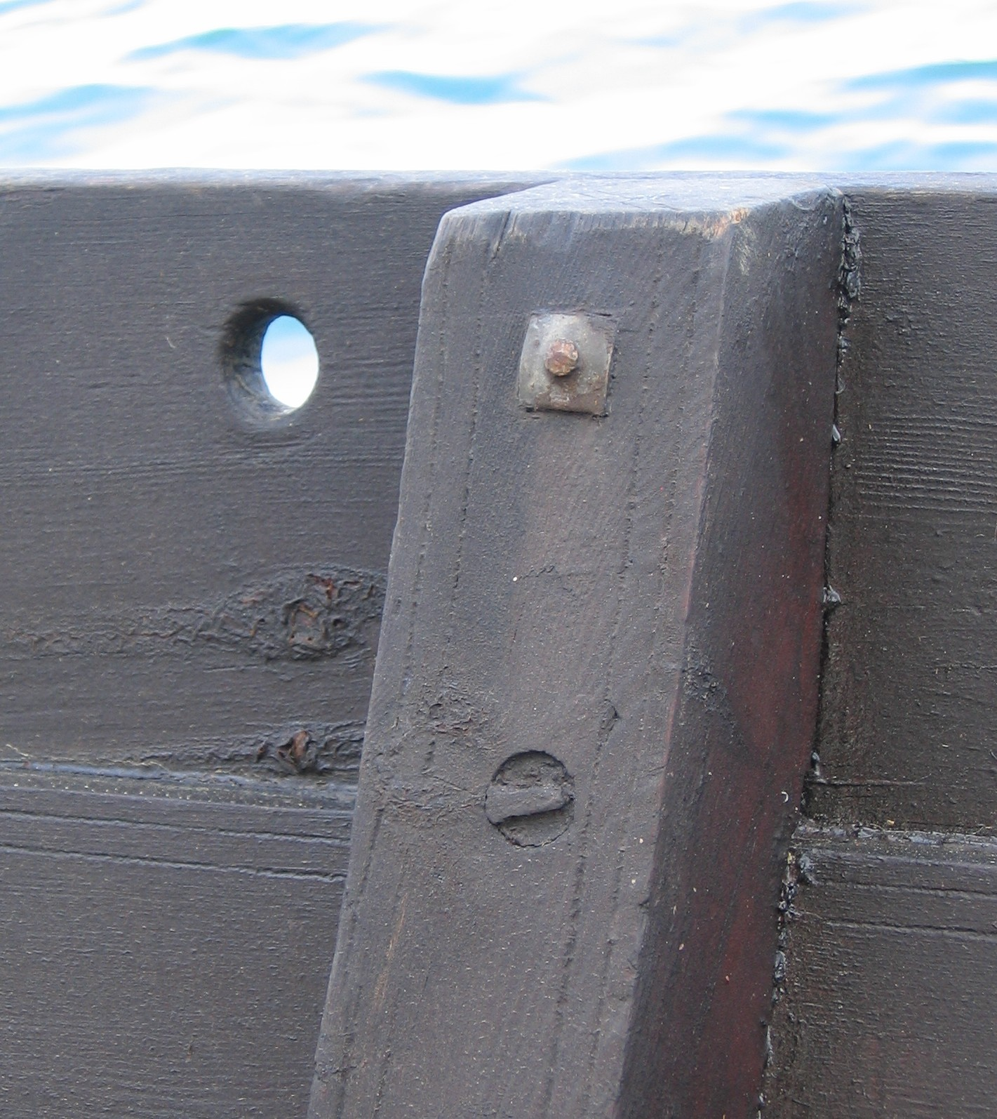 Detail from an old Norwegian wooden boat, showing a treenail.